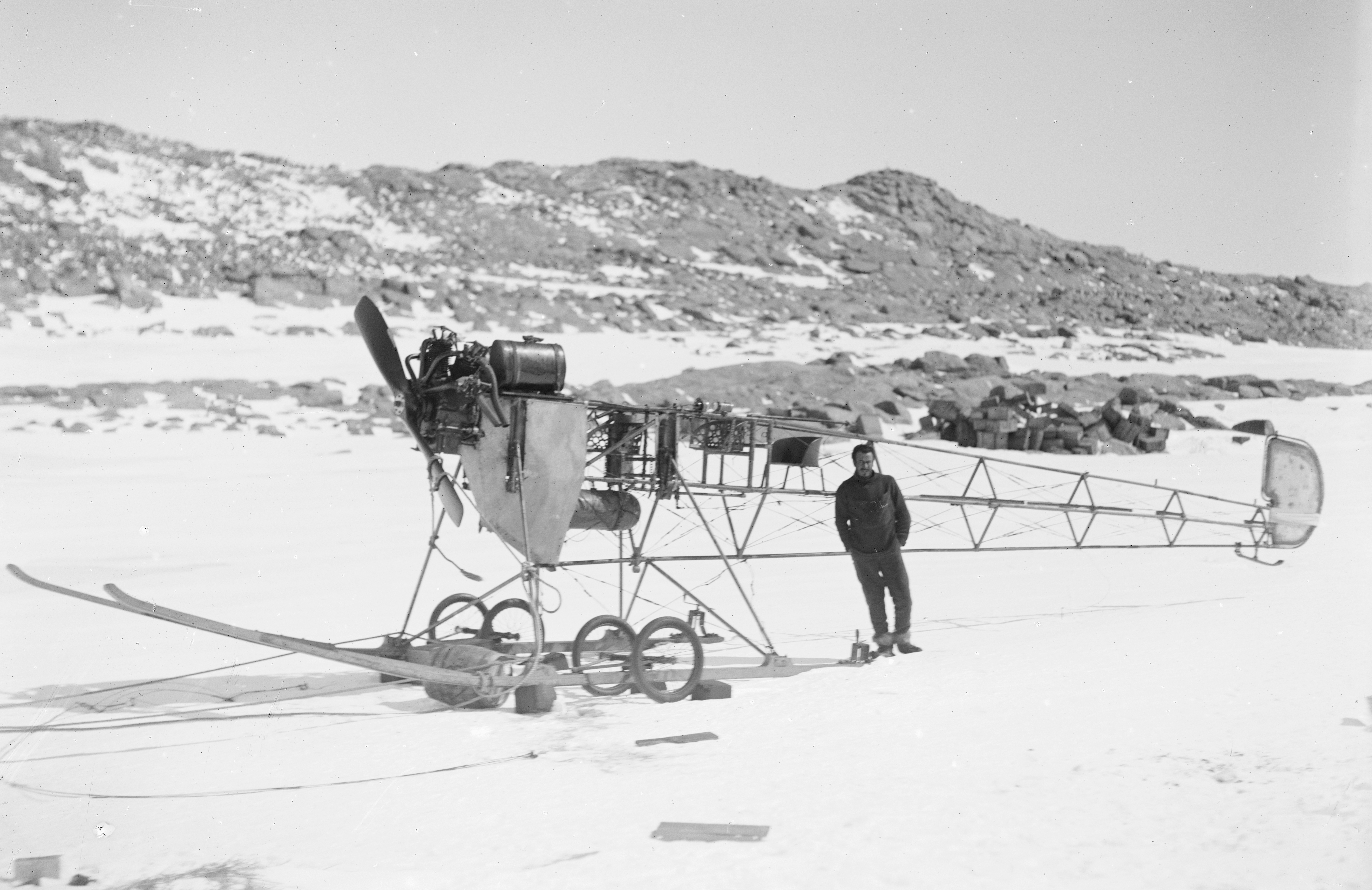 The Air tractor - the Vickers REP monoplane was damaged in Australia and never flew in Antarctica, however was used minus its mainplanes as a tractor.